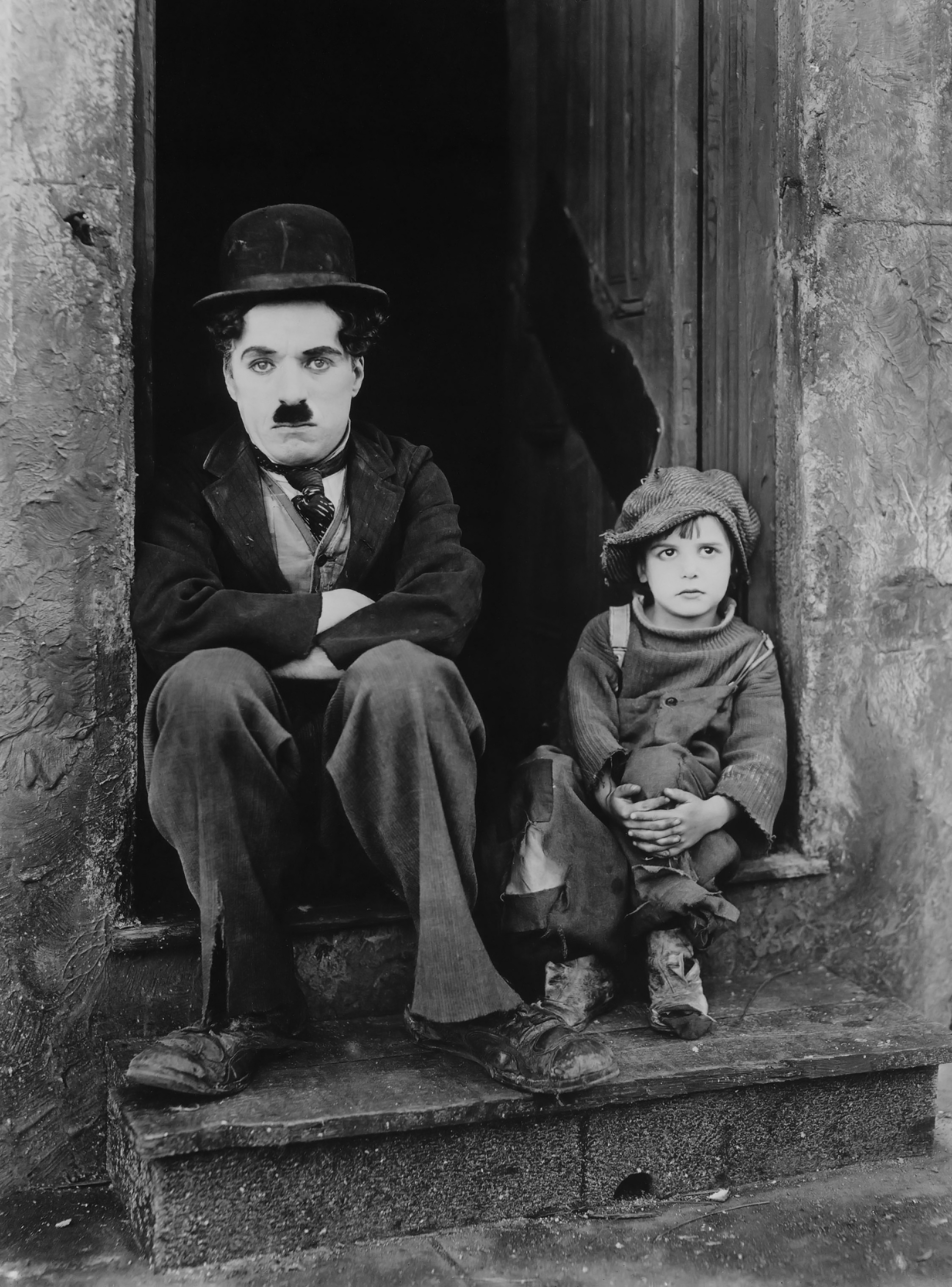 Publicity photo from Charlie Chaplin's 1921 movie "The Kid". Pictured are Charlie Chaplin and Jackie Coogan. This photograph has been edited by the uploader to reduce JPEG artefacts and remove some dust and scratches